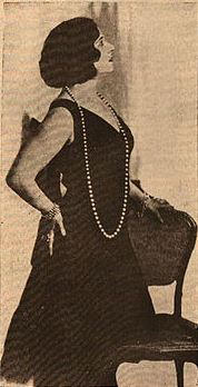 Stoil Stoilov